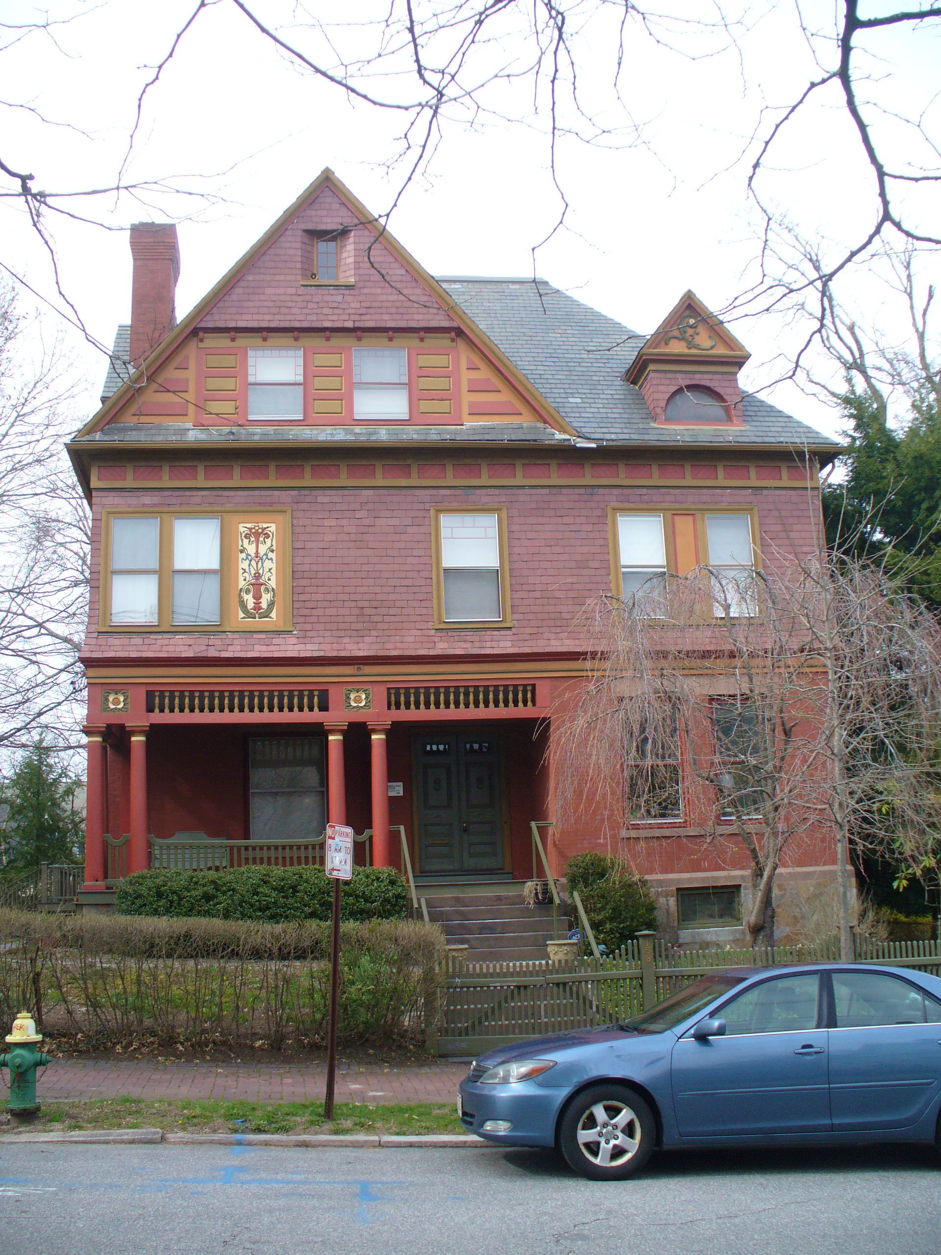 A Queen Anne residence on Bowen Street, designed by Edward I. Nickerson.